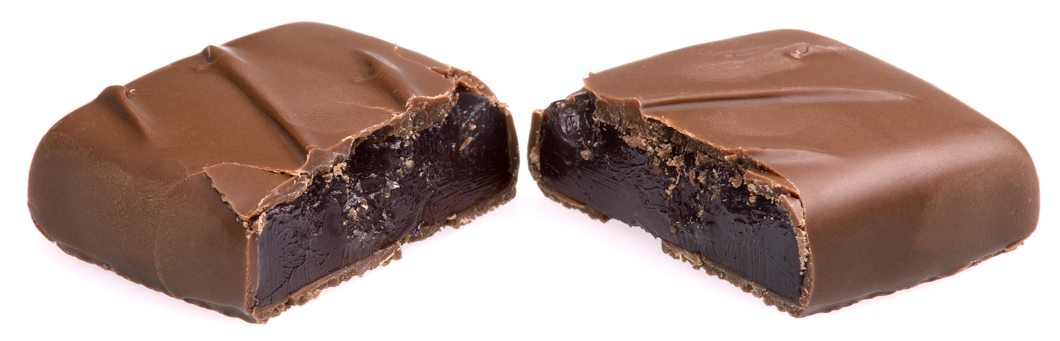 A Fry's Turkish Delight that has been split in half.